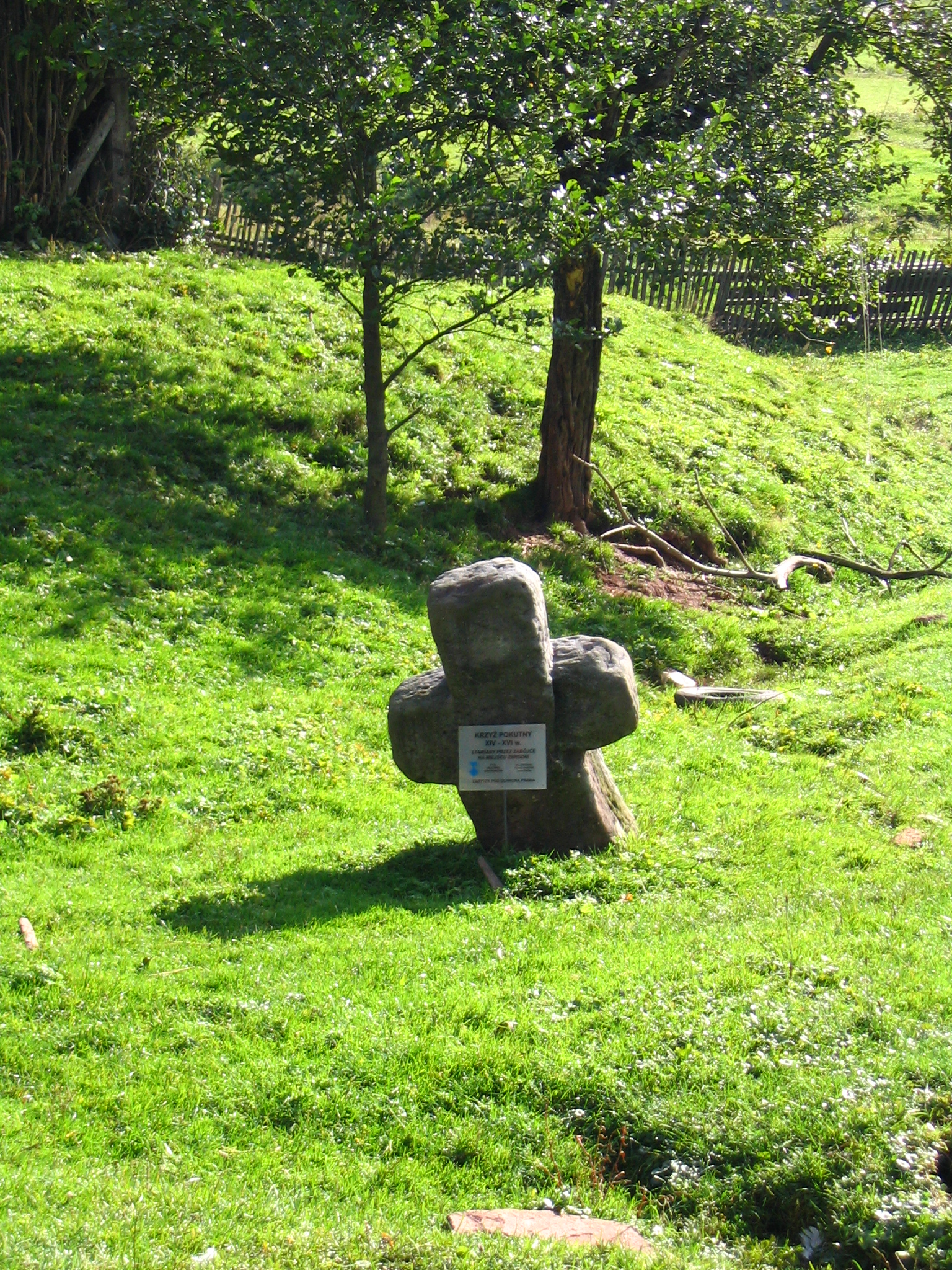 Penance cross, AD 1717, Okrzeszyn, Poland, 2005 yr. Camera: Canon PowerShot A75